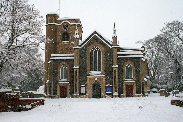 St Martin of Tours parish church, Church Street, Epsom, Surrey, England, seen from the west in snow. The nave was built in 1824 and replaces the earlier building of 1450, of which only the tower remains, encased in later stonework.